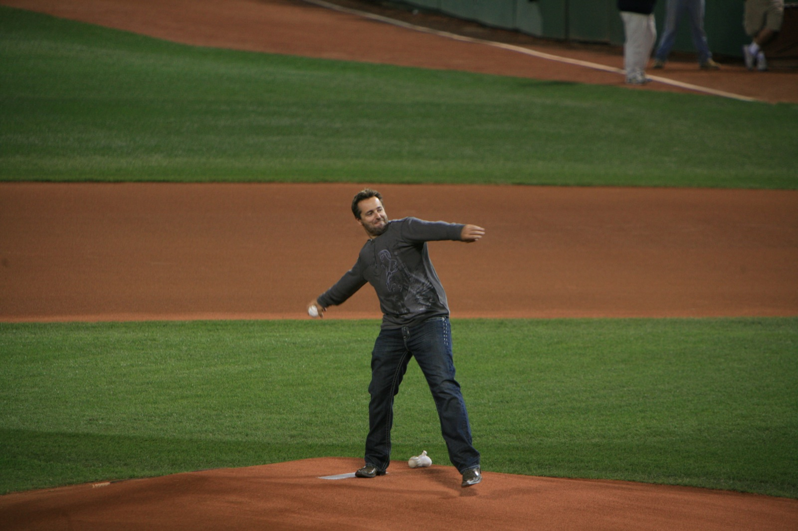 2007 ALCS Game 7 Fenway Park